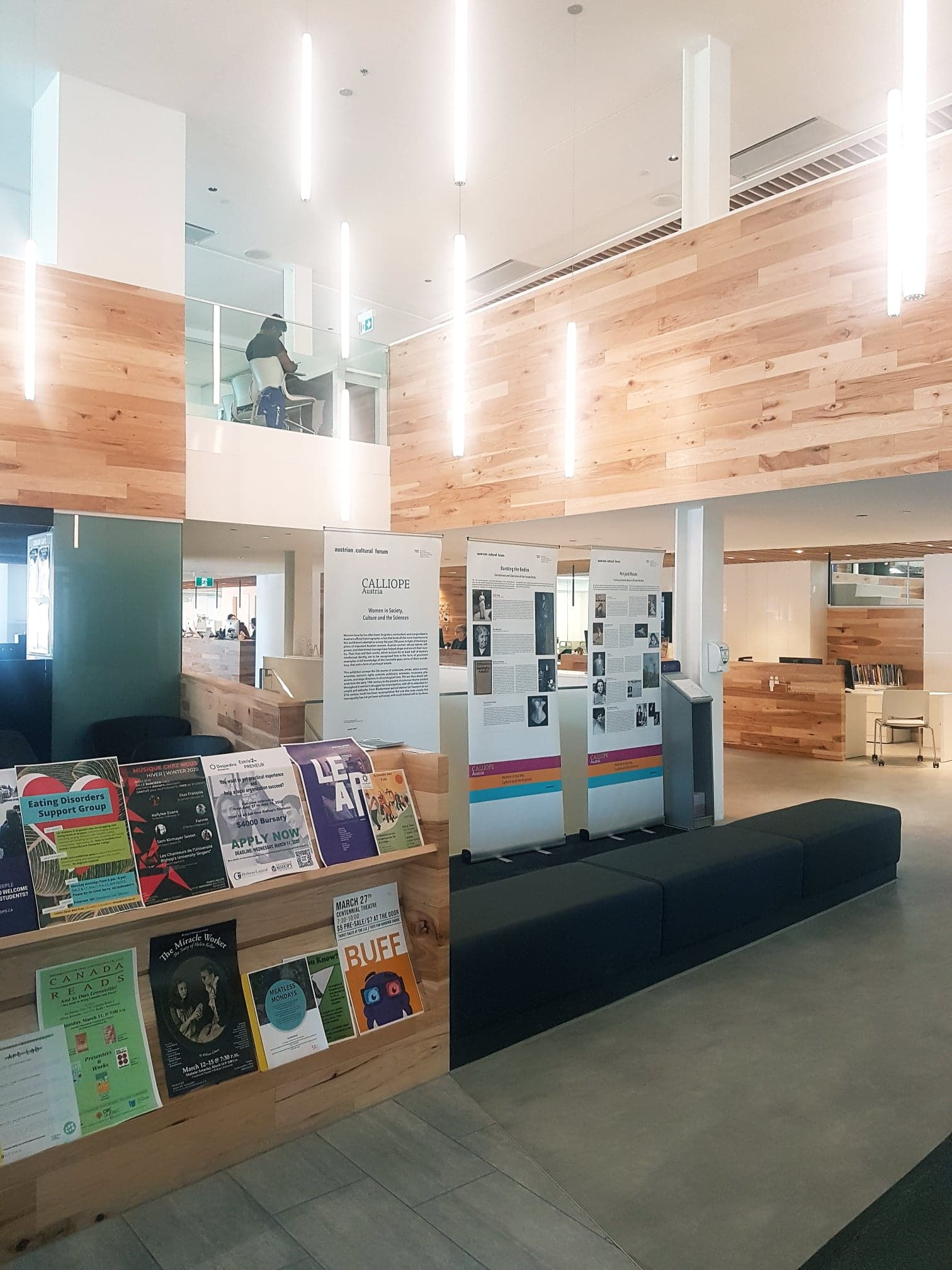 Interior (lobby) of the newly renovated John Bassett Memorial library in 2018